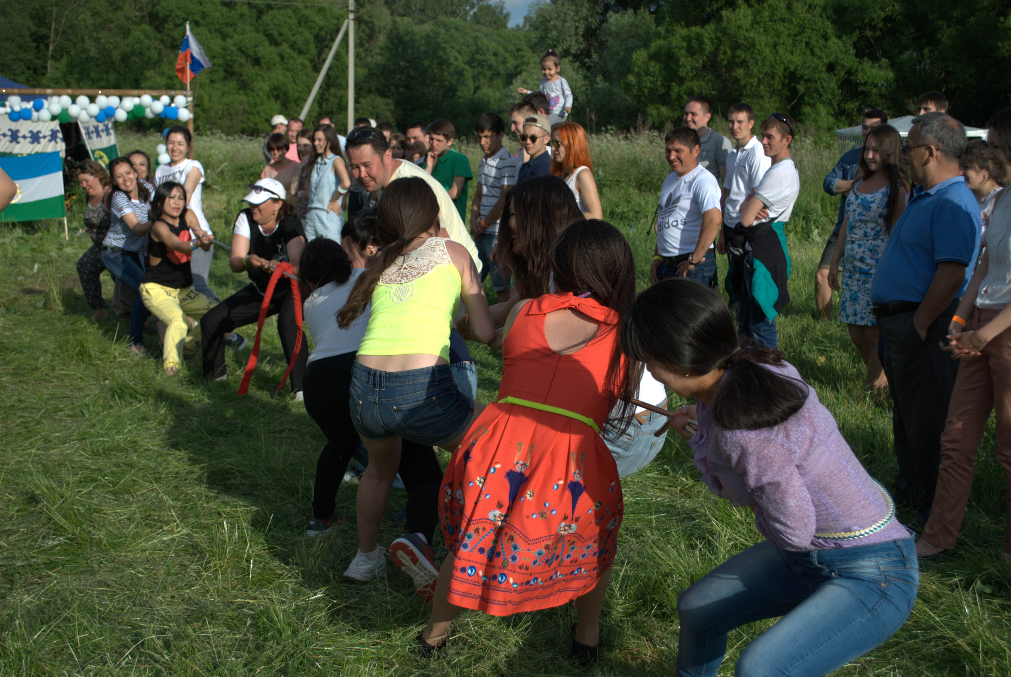 tug of war competition on Moscow Sabantuy of Moscow bashkirs